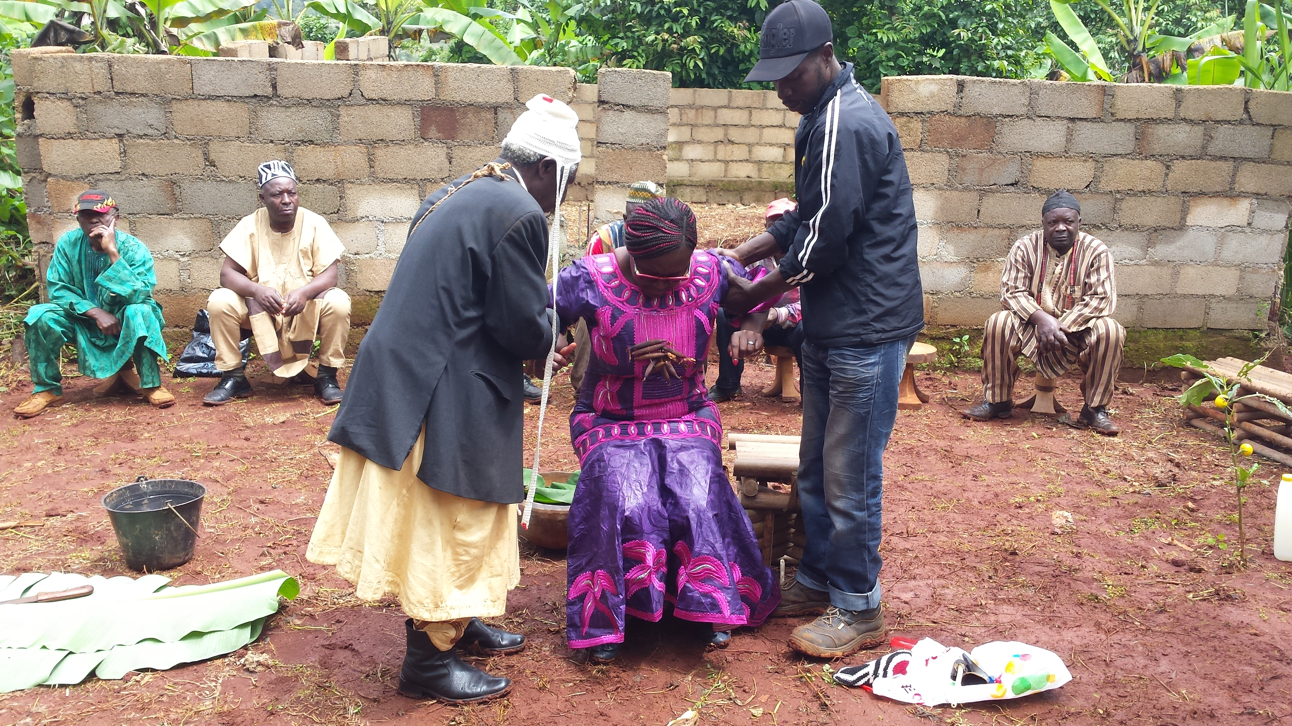 Enthroning a Mafo in Baham West Caeroon This is an image of "African people at work" from Cameroon